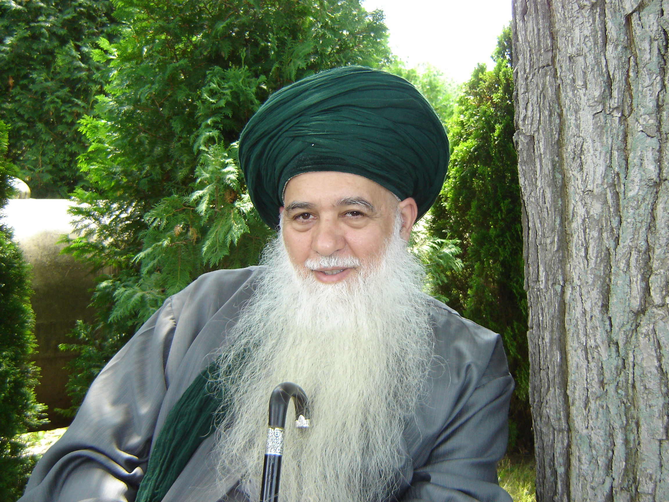 Cheikh Hisham Kabbani